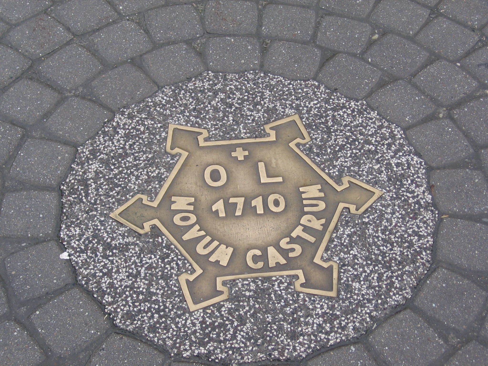 The place of execution of László Ocskay